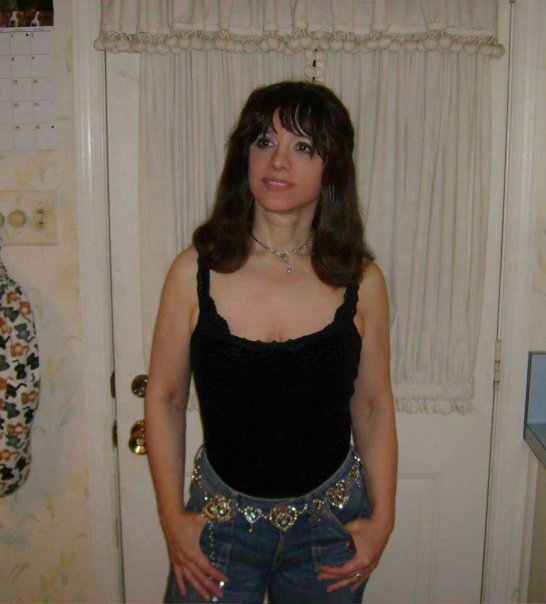 Catherine Asaro